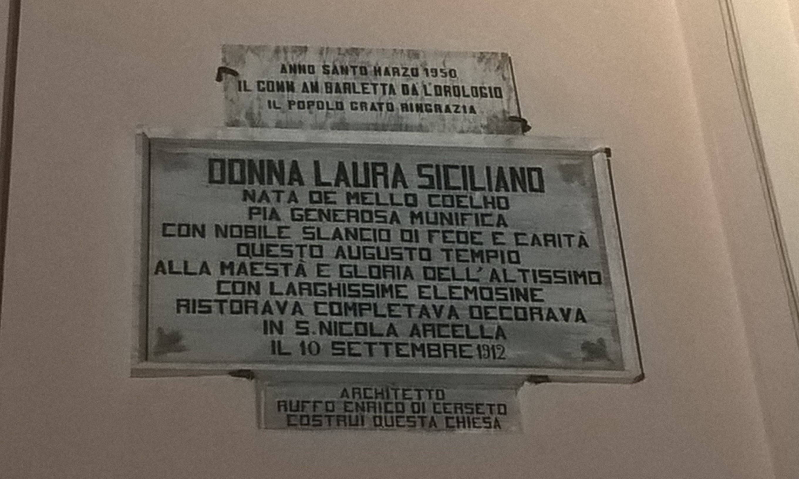 Marble plate of Laura Siciliano in Laura Siciliano square, San Nicola Arcella (Italy)